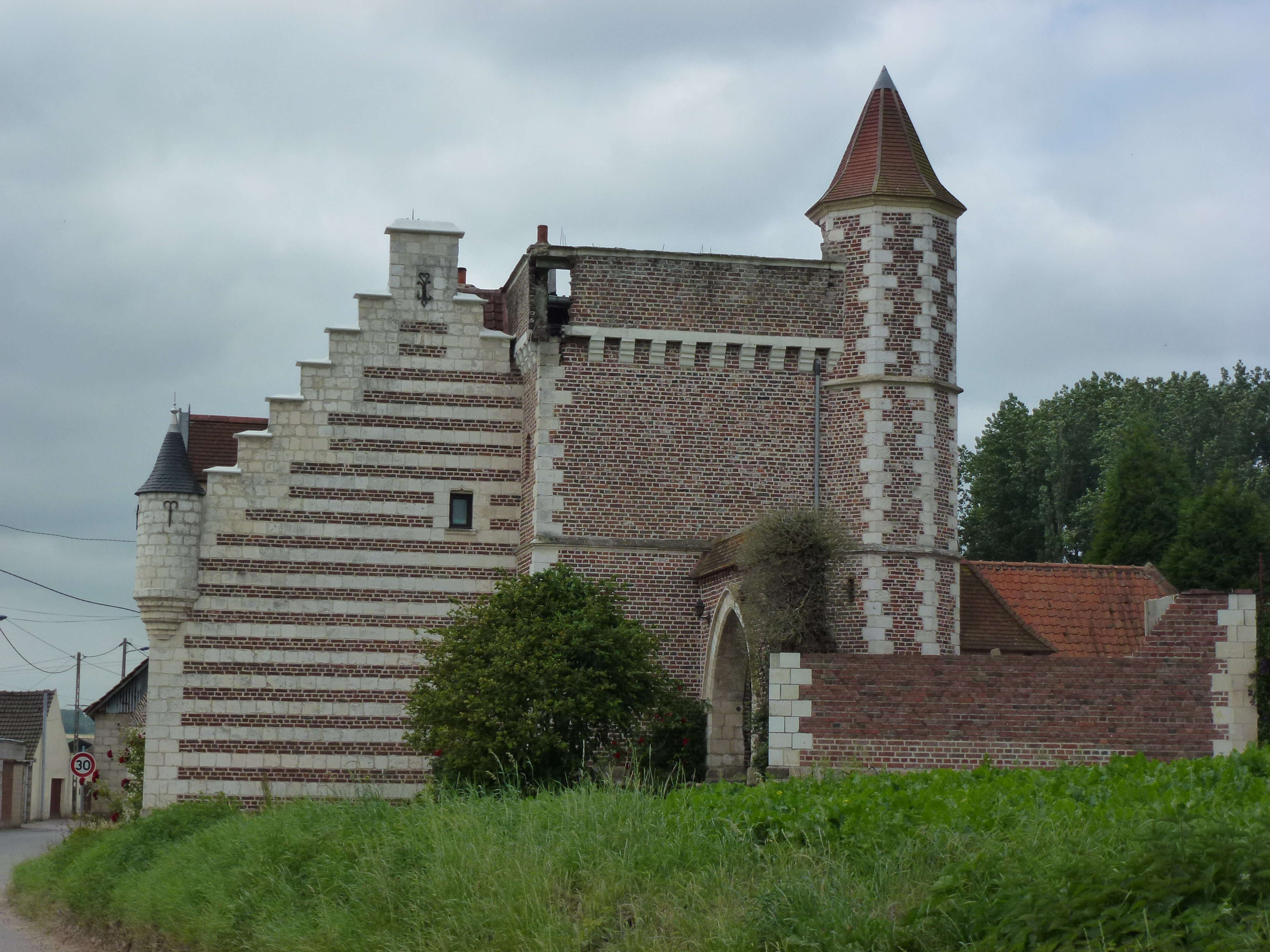 Rombly (Pas-de-Calais) château